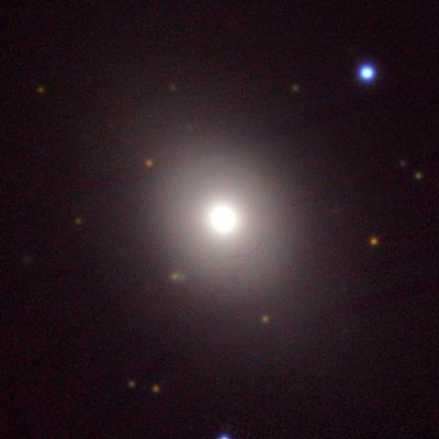 PanSTARRS image of NGC 3308.